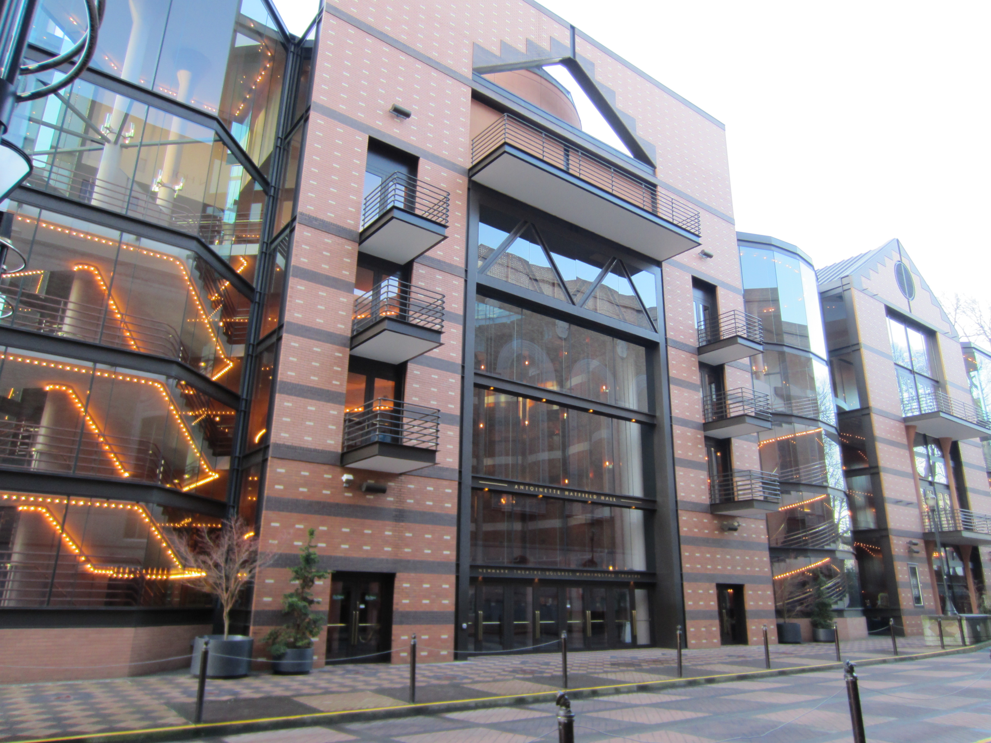 Antoinette Hatfield Hall in downtown Portland, Oregon in 2012